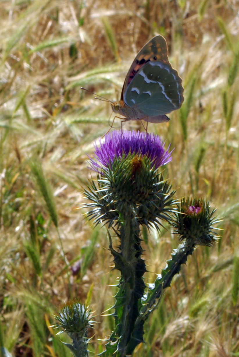 Argynnis pandora on Onopordum acanthium. Burgos (Spain)